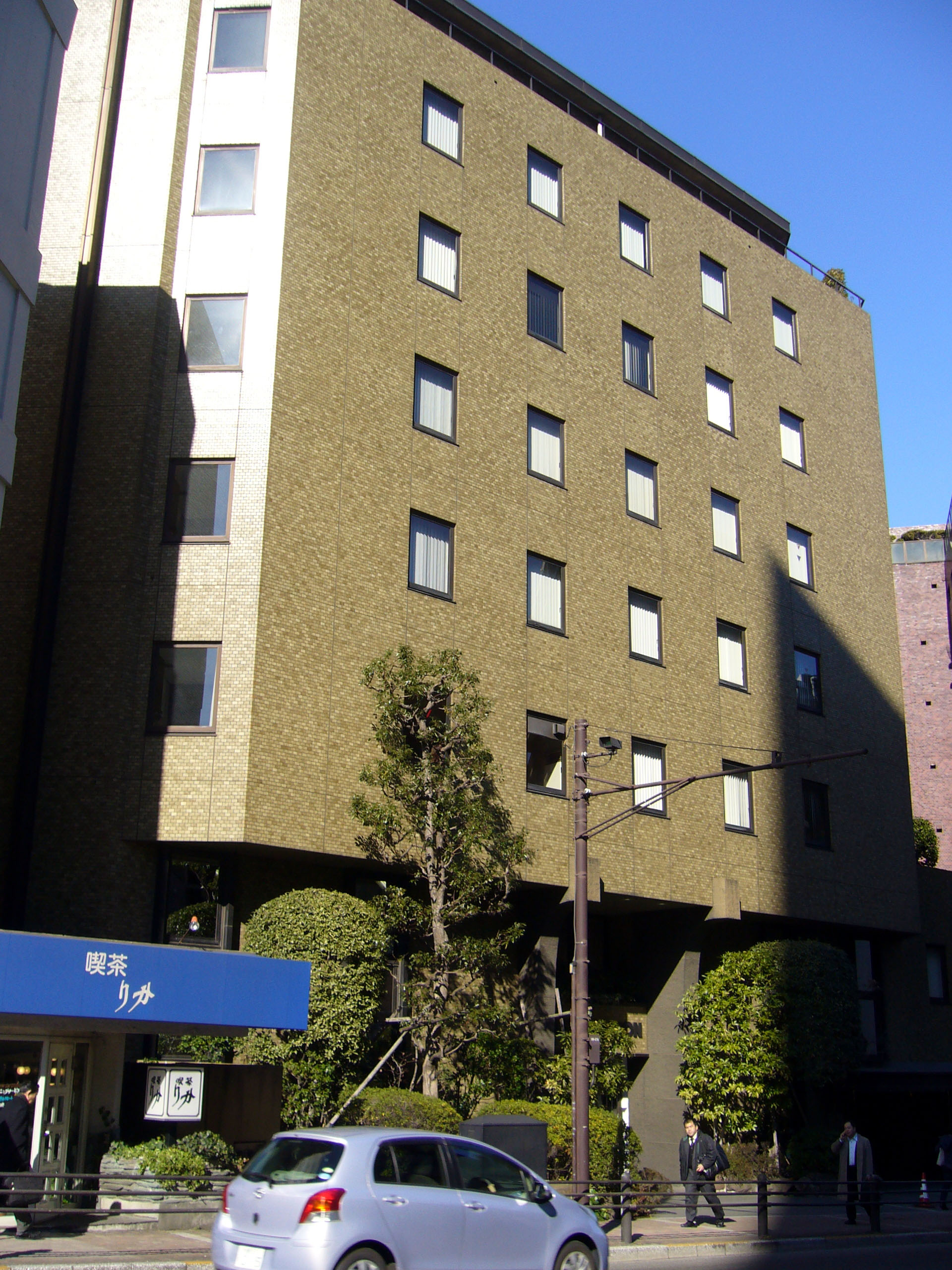 Homat Horizon Building (Office building in Tokyo, Japan)